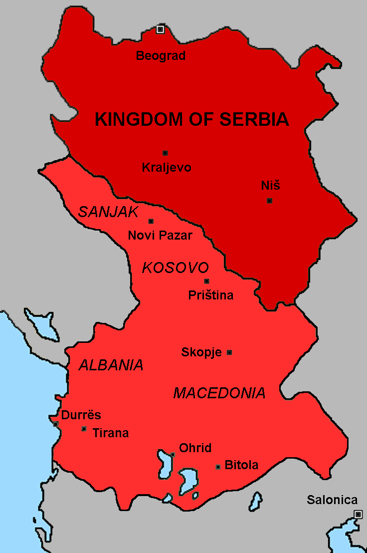 Short-lived territorial expansion of the Kingdom of Serbia during the Balkan Wars, claiming territories occupied by the Stephen Dušan, in the XIV century. This situation lasted from July (after occupation of Vardar Macedonia) to October 1913 (before withdrawal from occupied parts of Albania).